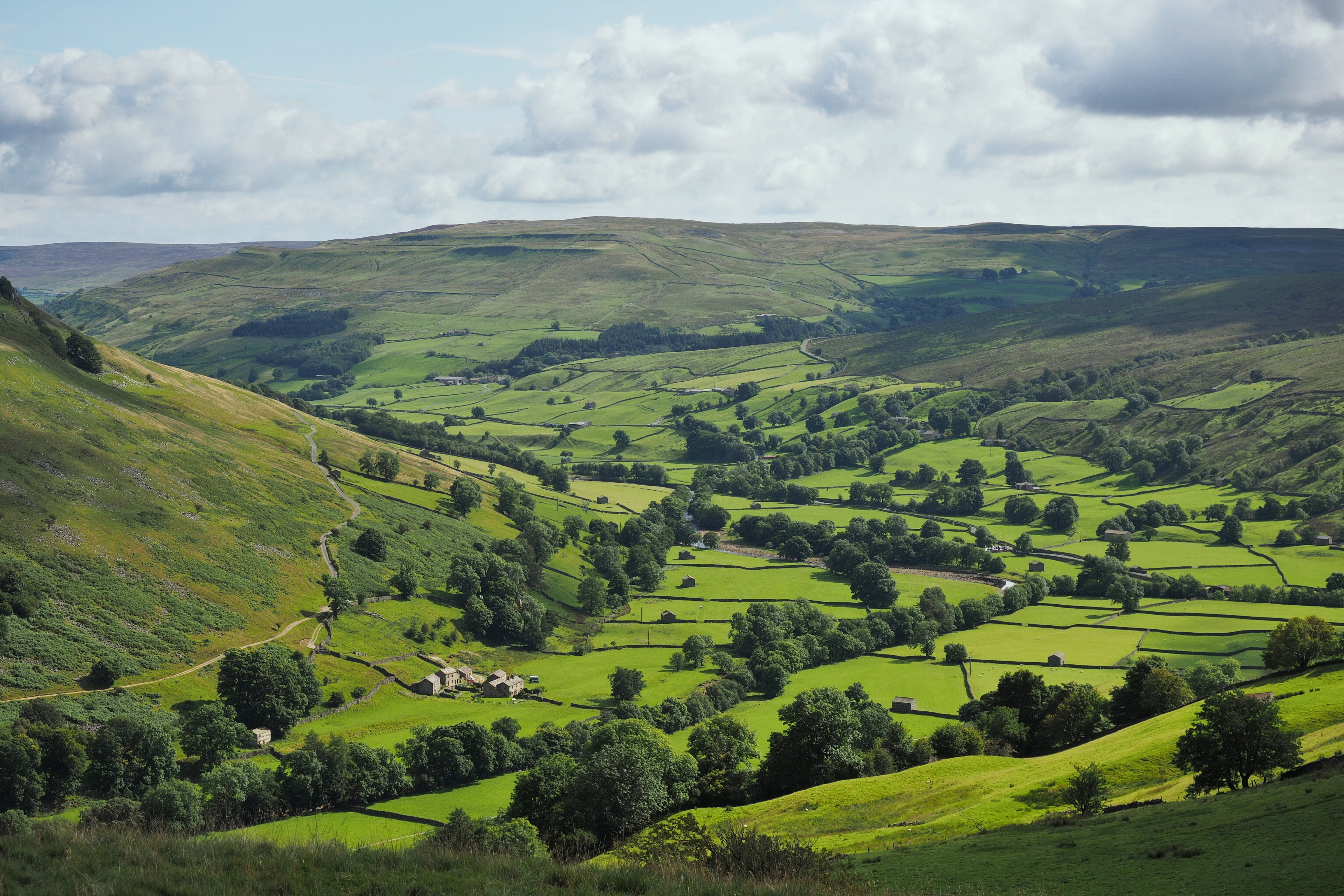 View into Swaledale (to the south-east) from the Pennine Way along Kisdon hill